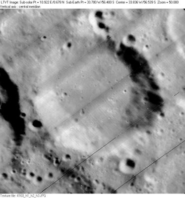 Rost lunar crater - image LO-IV-160H The crater partly visible on the left is 39-km Rost A. The 6-km crater outside the rim at 5 o’clock is Rost N.